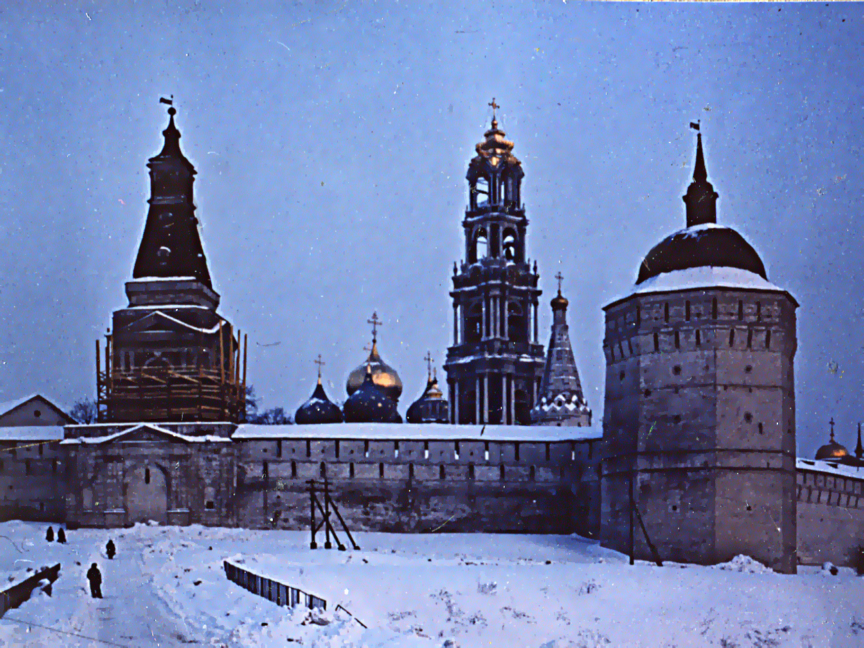 Belltower and walls of Trinity Lavra of St. Sergius